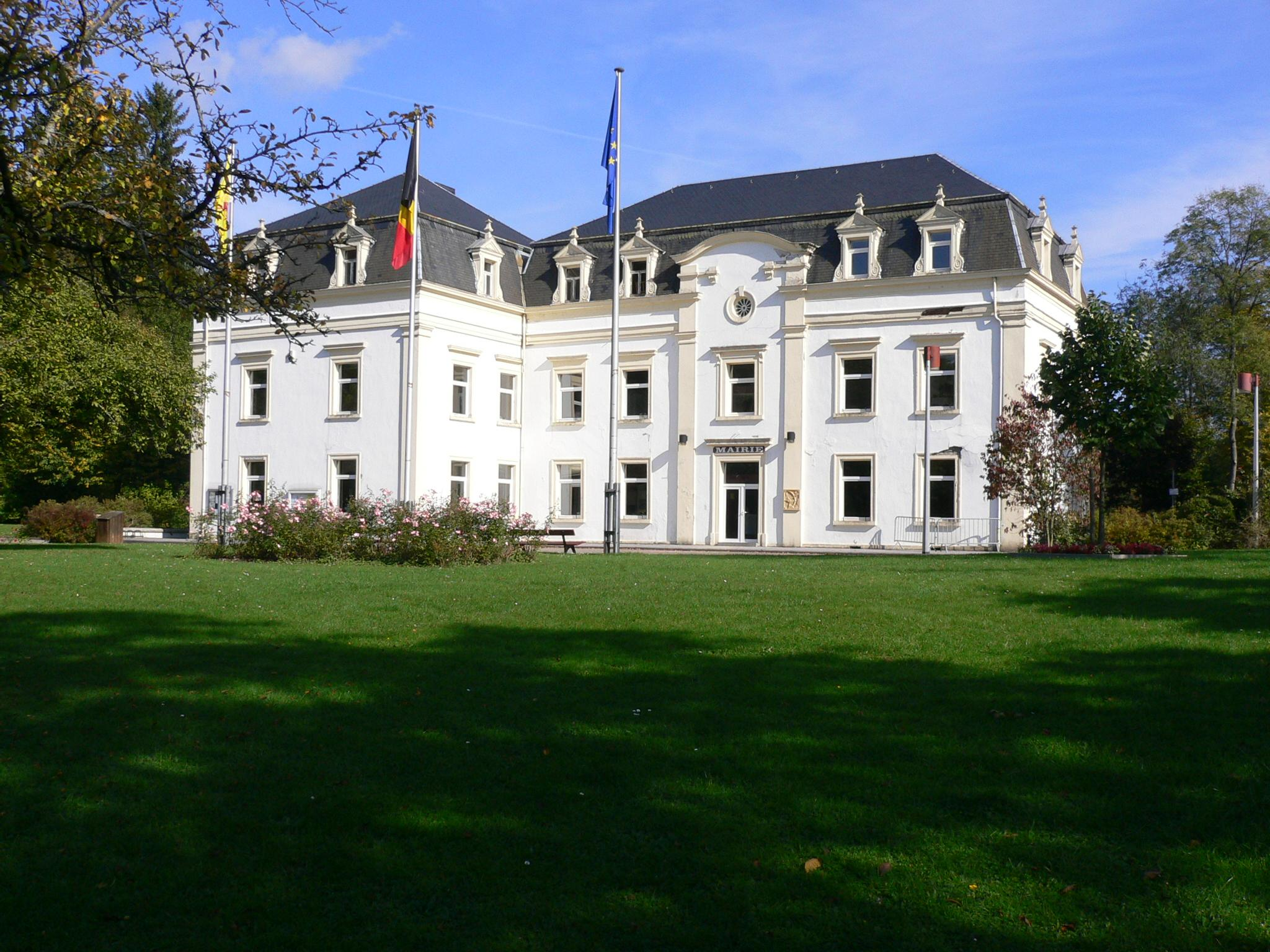 Habay-la-neuve : Mairie/City town